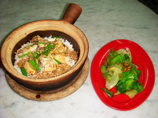 Clay Pot Chicken Rice